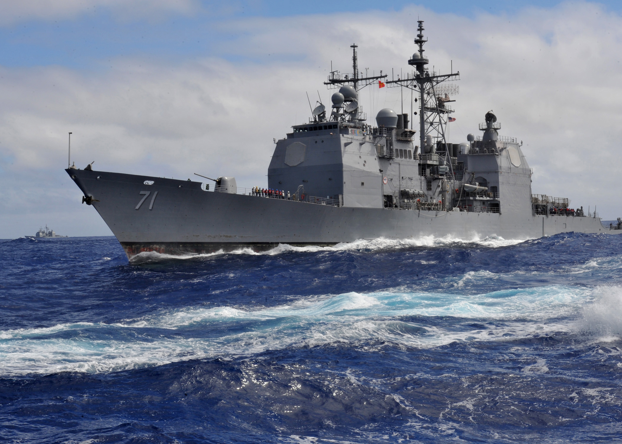 The guided-missile cruiser USS Cape St. George (CG 71) operates in the Pacific Ocean during exercise Koa Kai 14-1. Koa Kai is a semiannual exercise in the waters around Hawaii designed to prepare independent deployers in multiple warfare areas and provide training in a multi-ship environment. (U.S. Navy photo by Mass Communication Specialist 1st Class David Kolmel/Released)